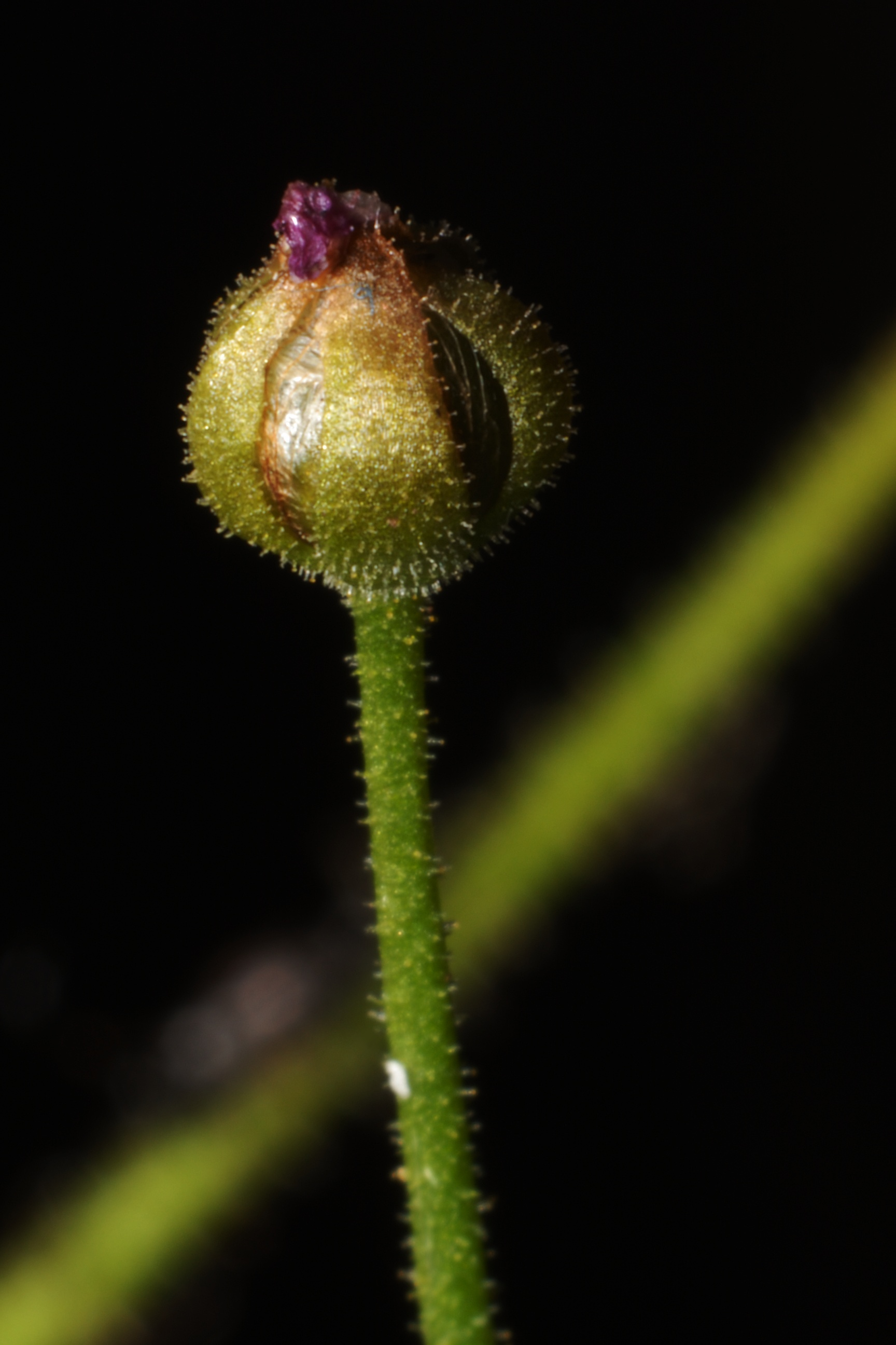 Drosera indica